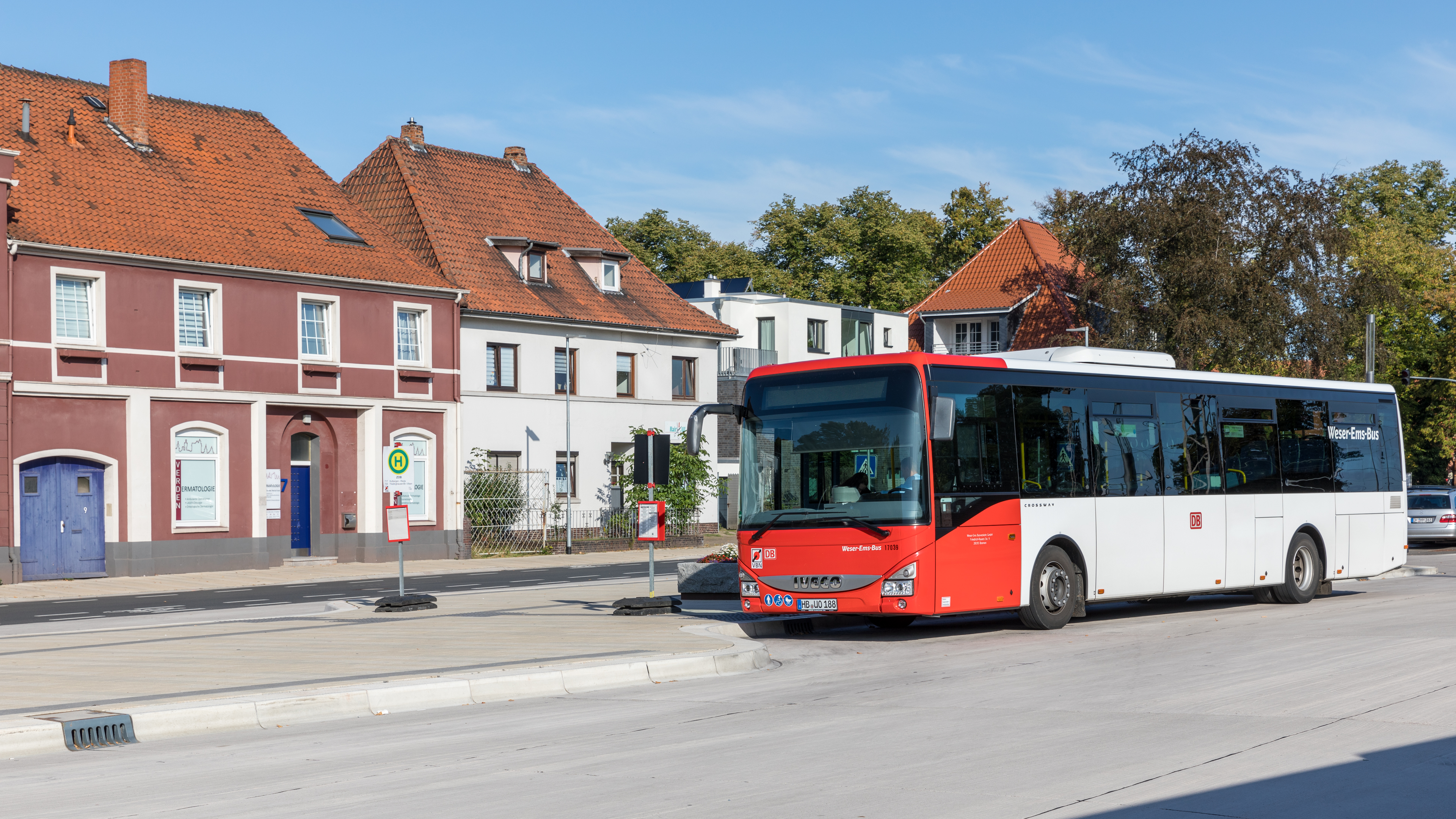 IVECO Crossway 12 LE operated by Weser-Ems-Bus at Verden/Aller railway station.